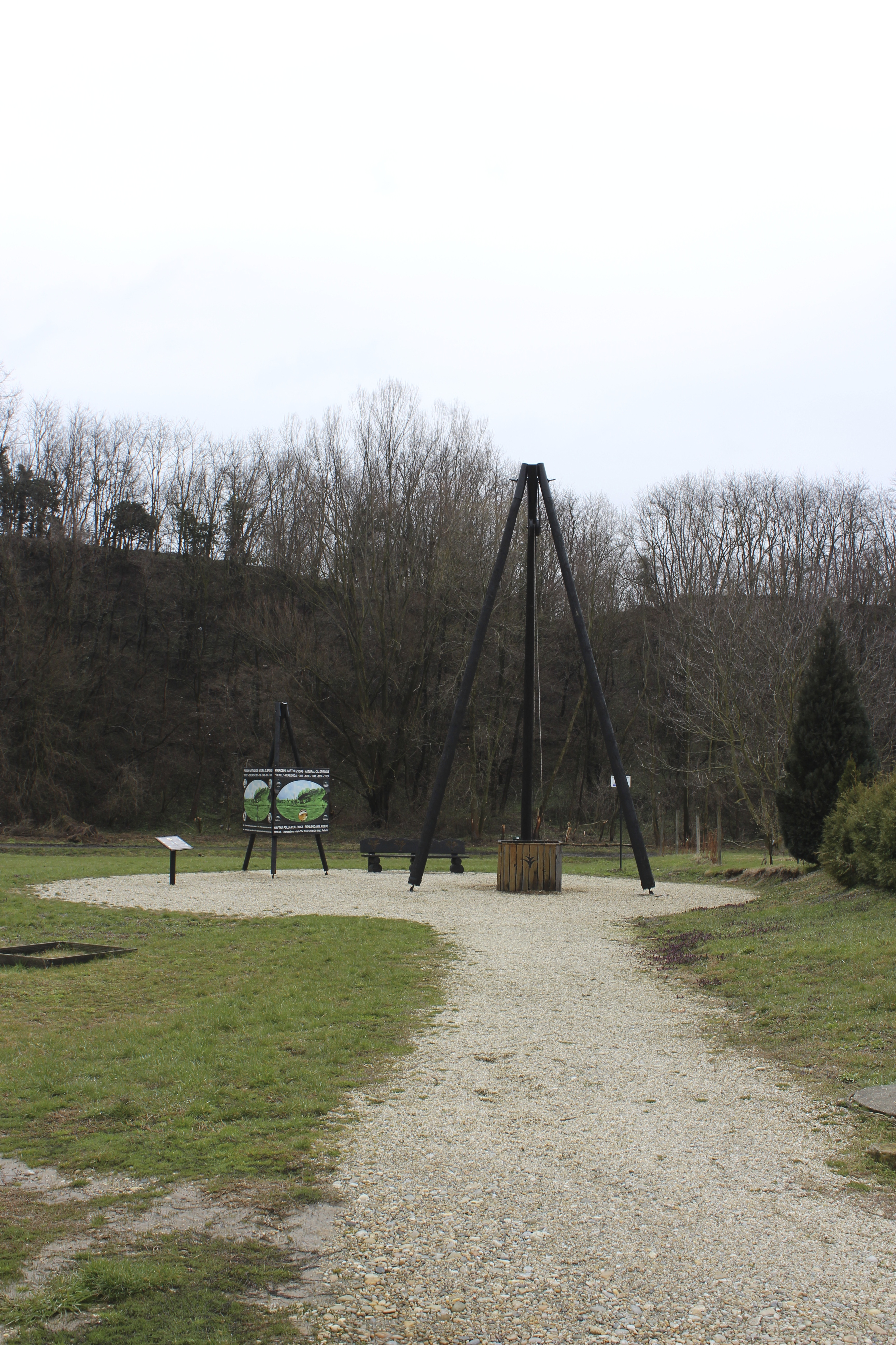 Oil rig replica in Peklenica, Croatia.